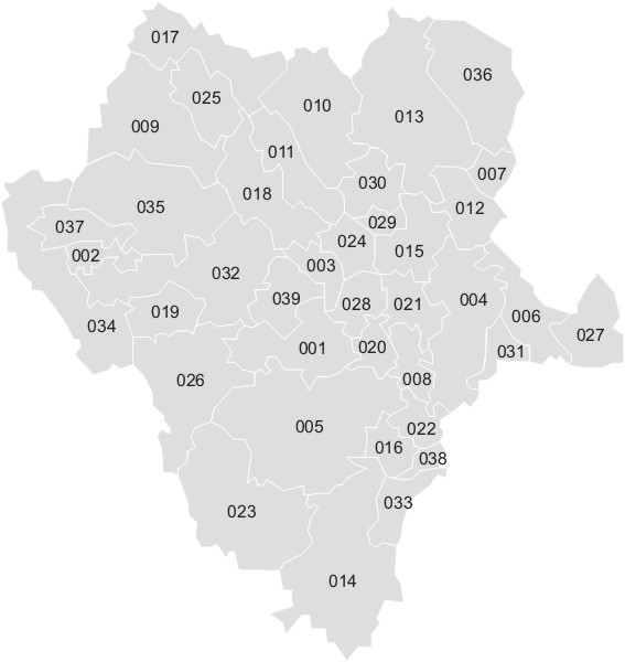 Map of the Municipalties of the State of Durango, México.